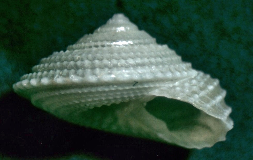 Calliotropis calcarata Schepman, 1908, a sea snail from the family Calliotropidae; Philippines